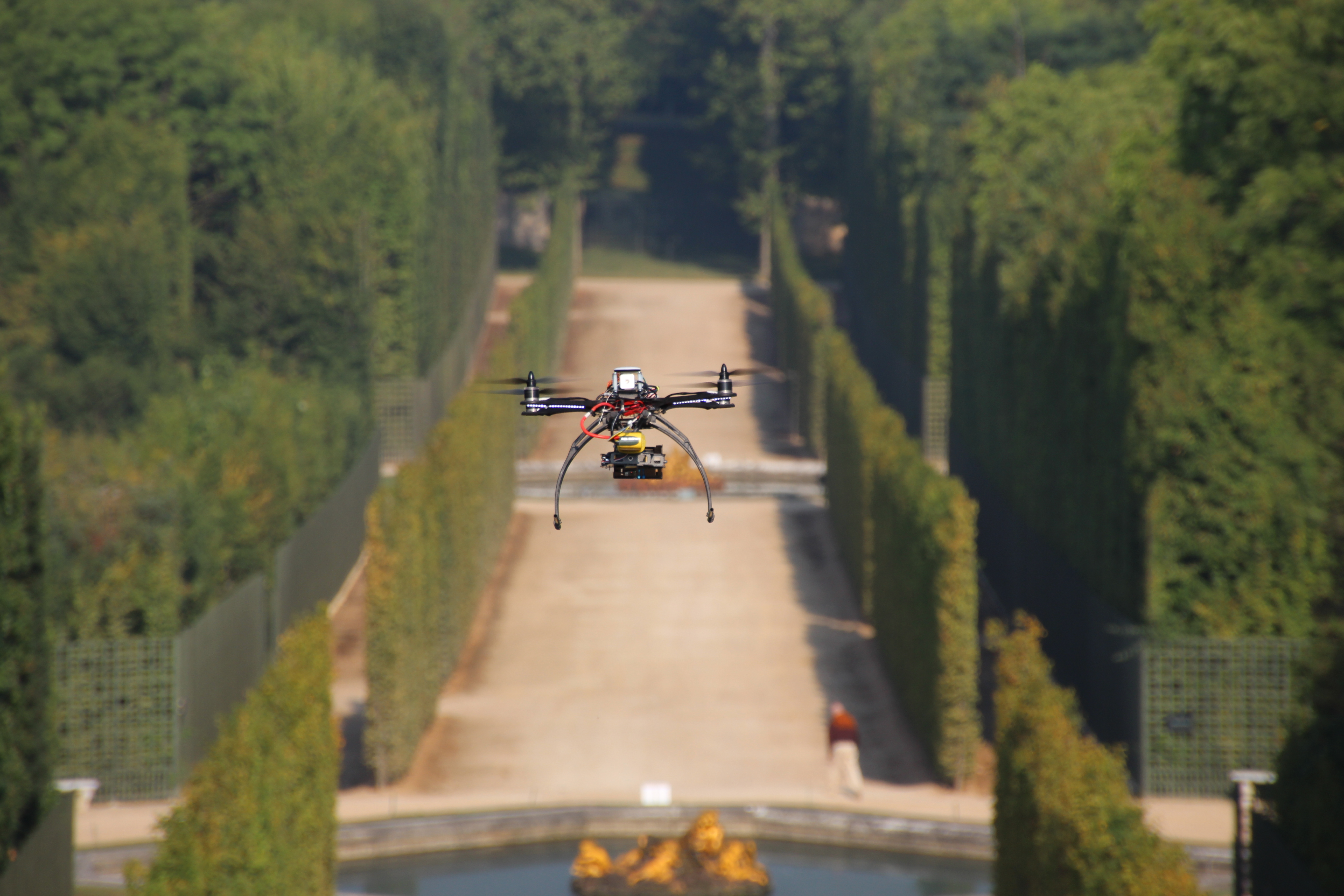 Aerial photography in the Domain of Versailles, France